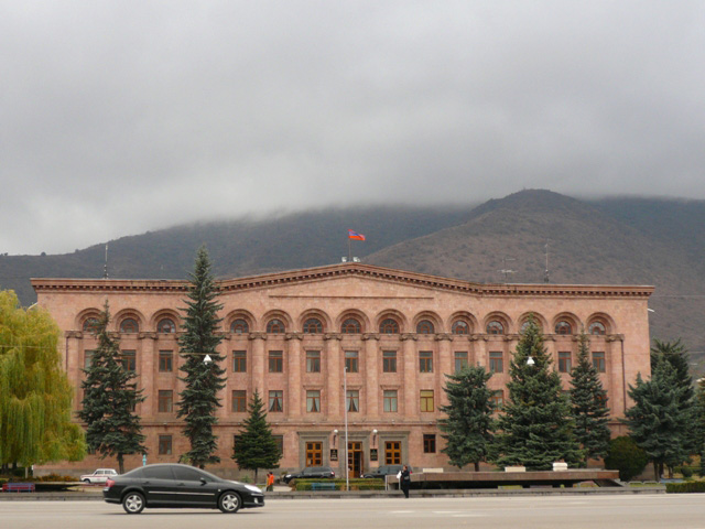 Building of Lori province's administration in Vanadzor.